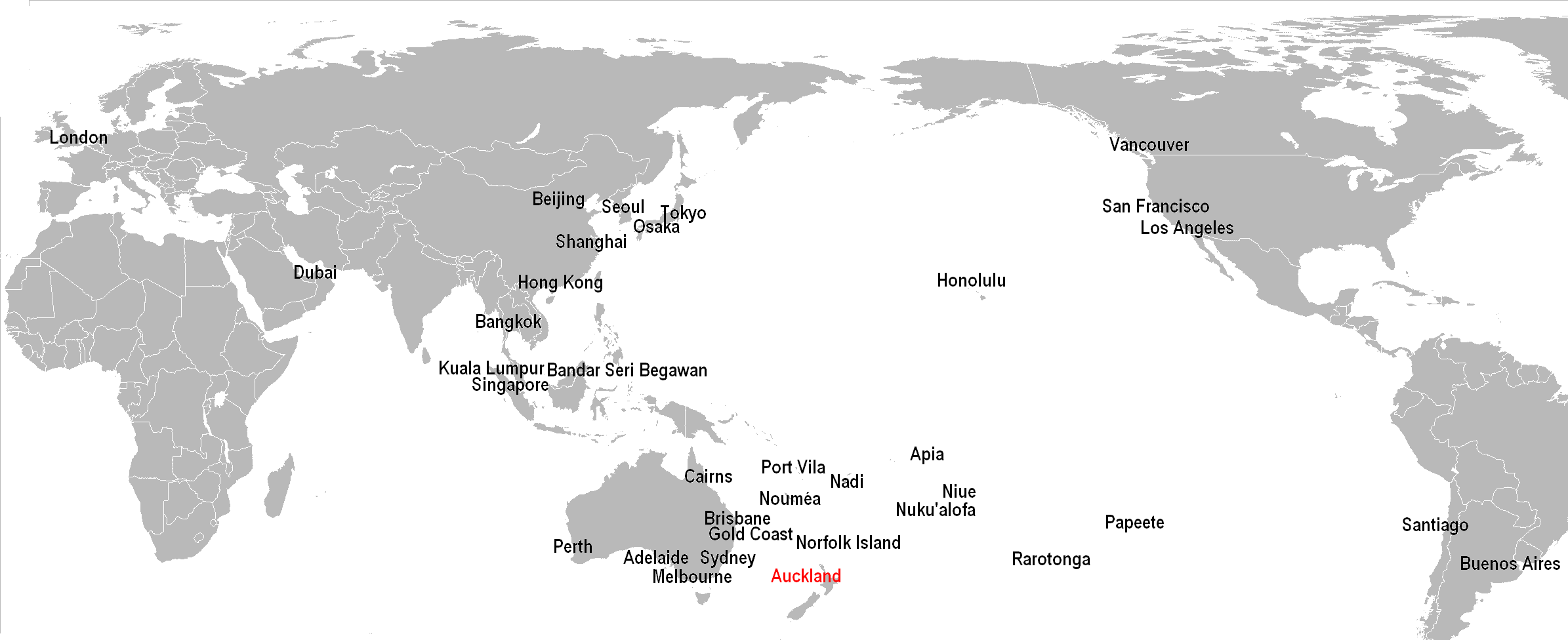 International cities with direct flights to AKL